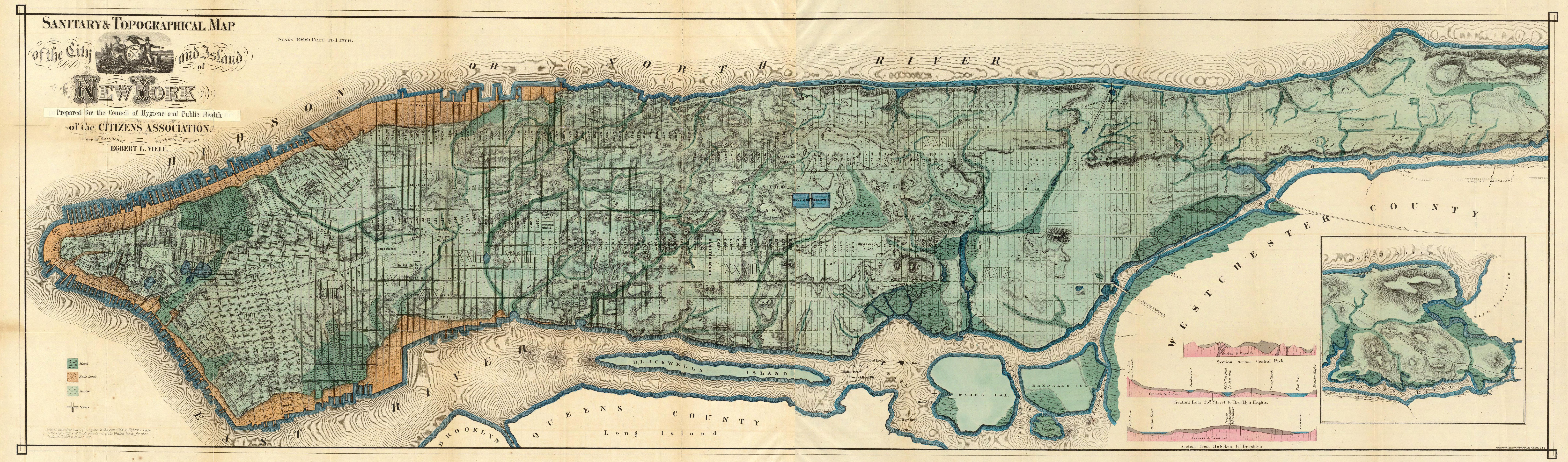 "Sanitary & Topographical Map of the City and Island of New York (1865)", known as the Viele Map. See also Category:Viele map of New York City published in 1874.